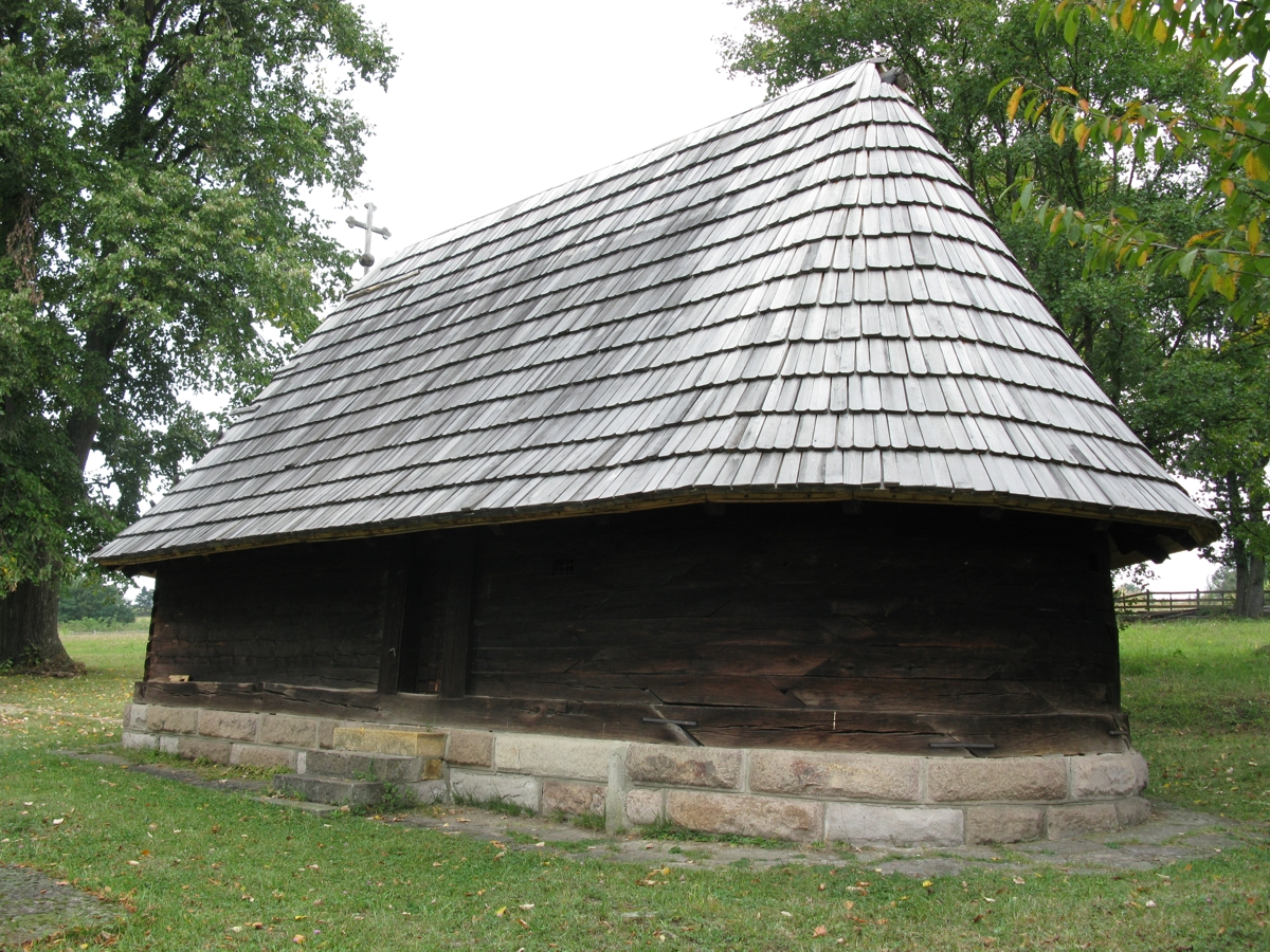 Church of saint George in Takovo,Serbia.